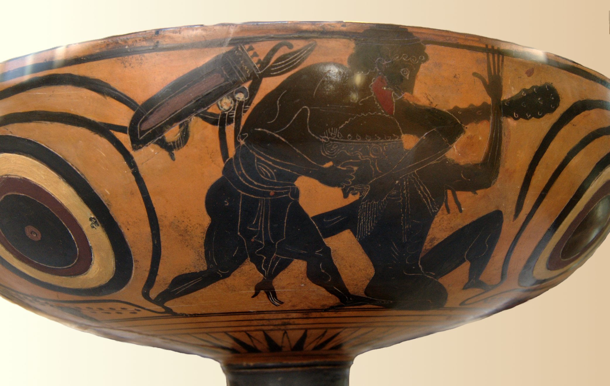 Boats cup, detail of the side B showing Heracles fighting Alcyoneus (according to museum description) or Antaeus (according to Beazley Archive #302377). Attic black-figured cup, ca. 520 BC. From Cerveteri.